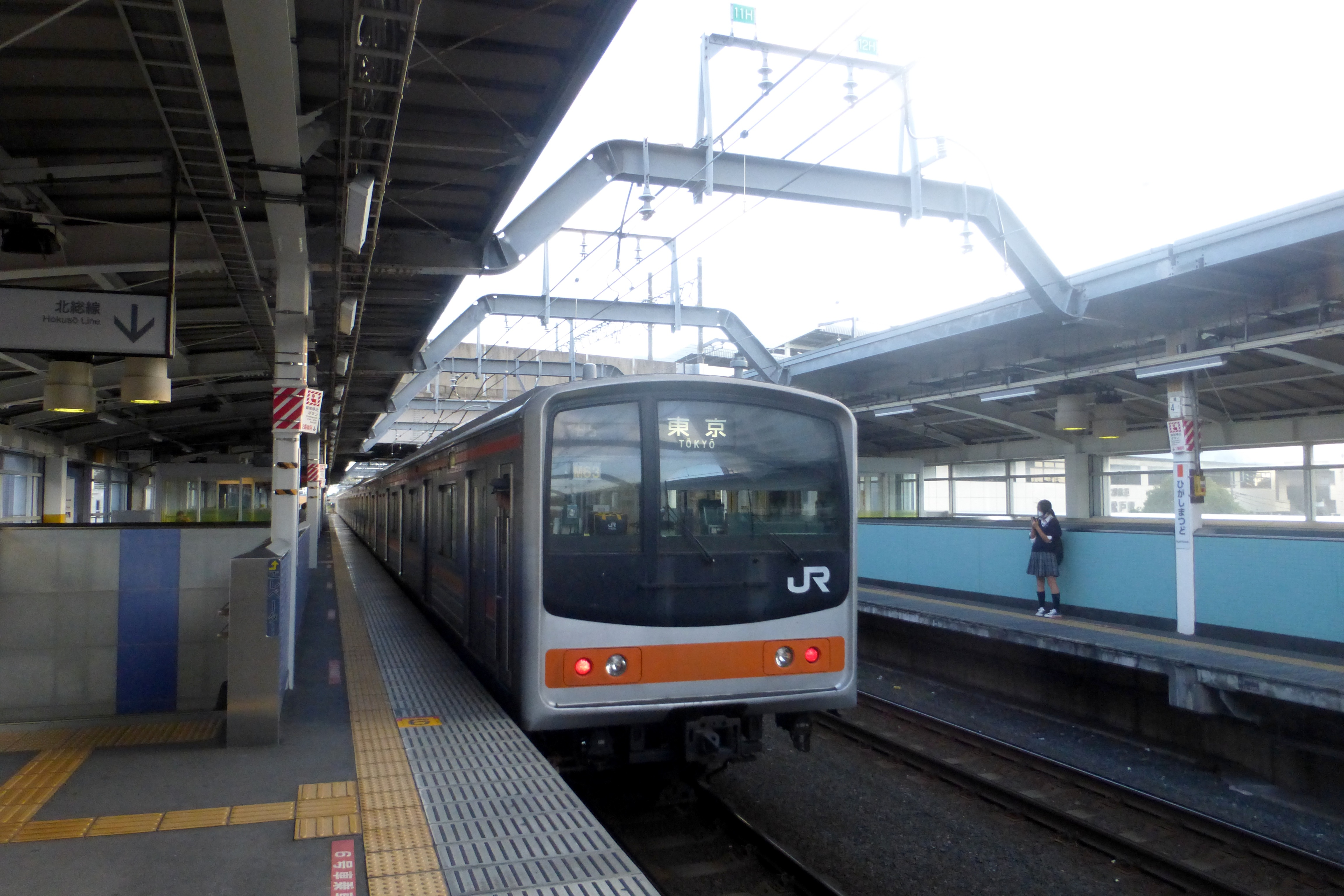 Higashi-Matsudo Station platforms (東松戸駅のホーム)